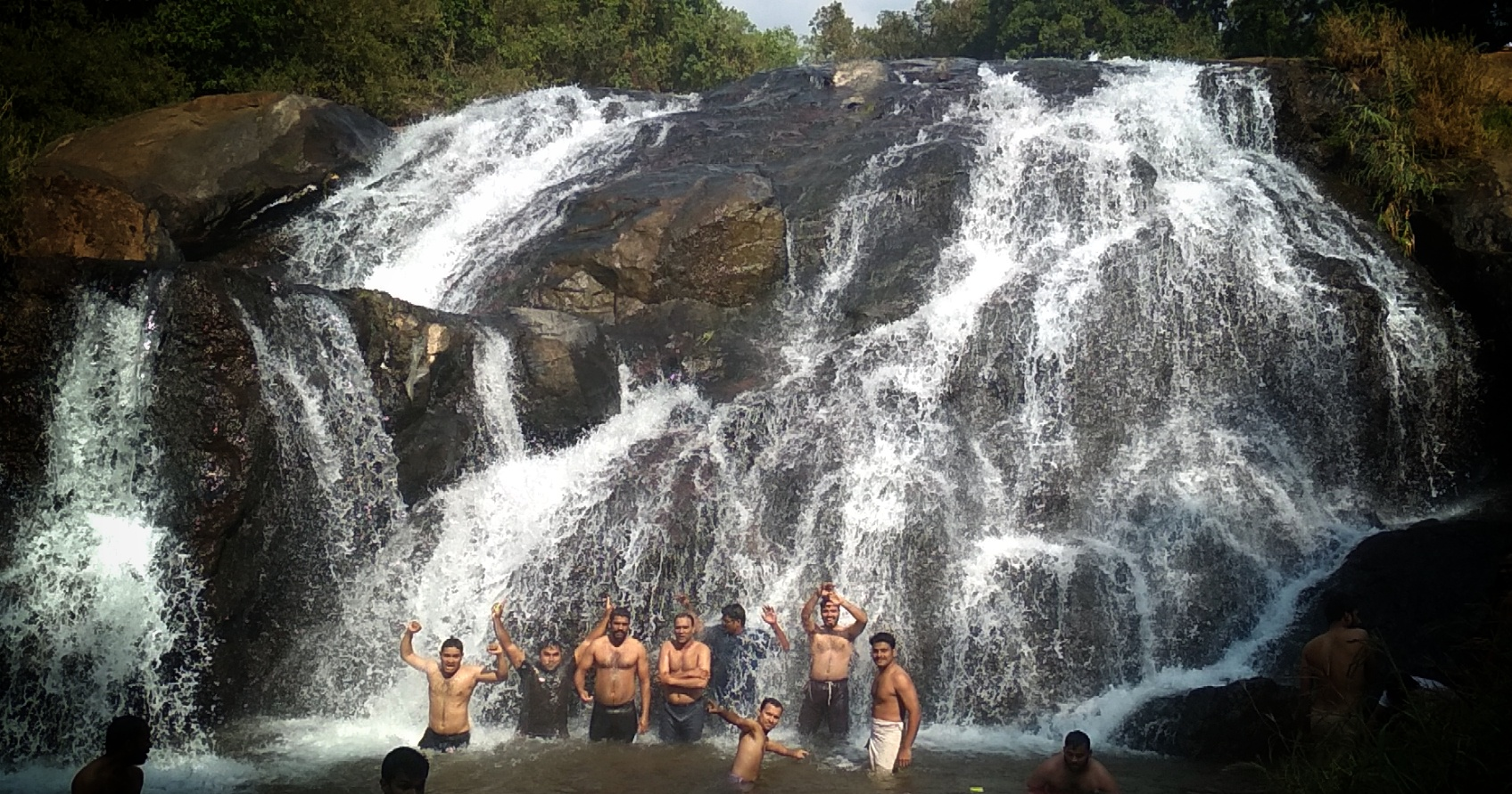 Catherine Falls is a double-cascaded waterfall located in Kotagiri, The Nilgiris District, Tamil nadu